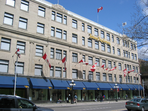 Former Freimans department store in Ottawa, Canada, now an outlet of The Bay